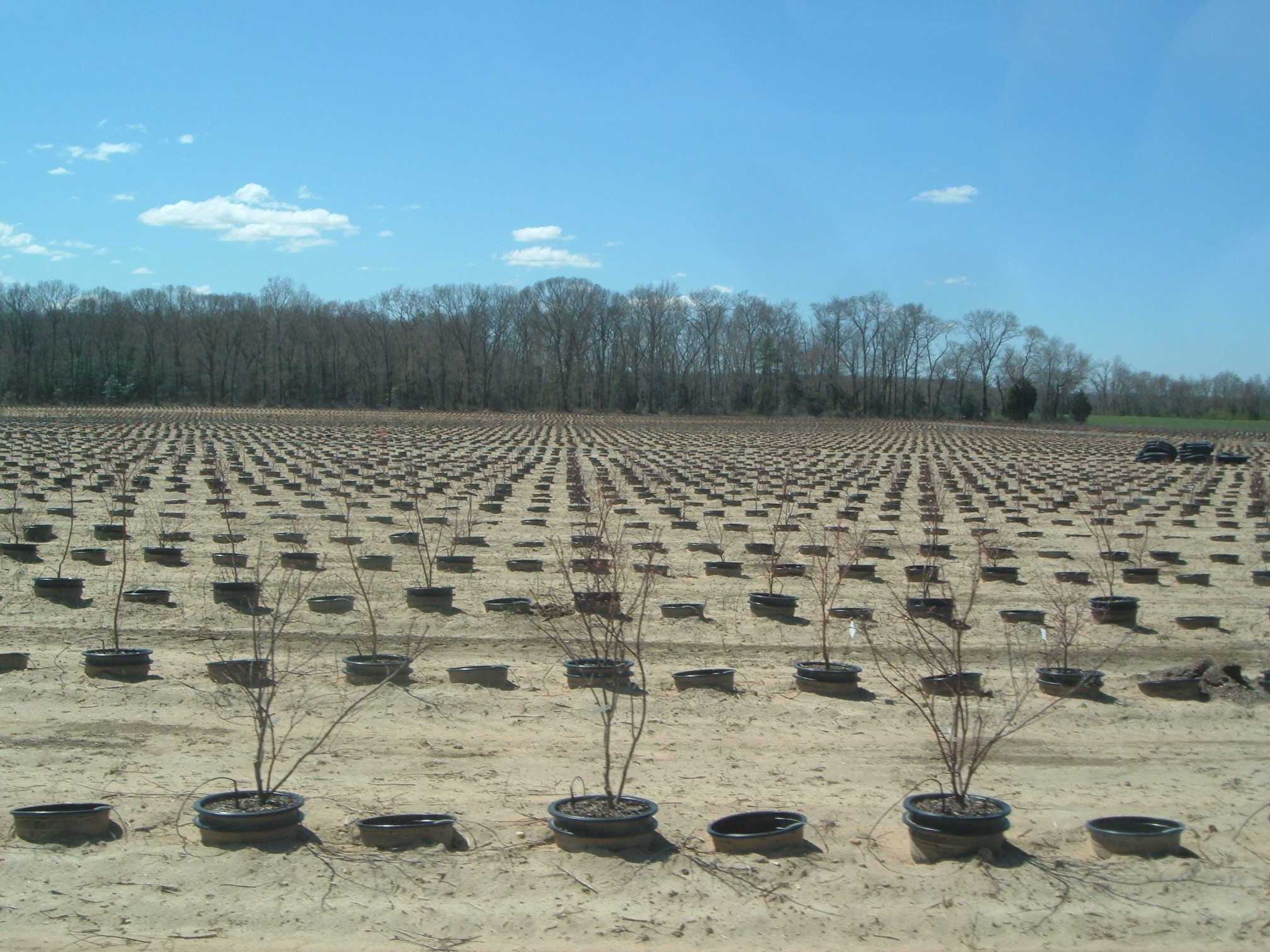 A pot-in-pot field